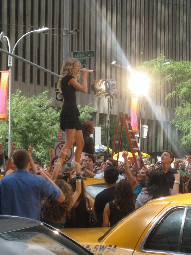 Taylor Swift performing at the 2009 MTV Video Music Awards.